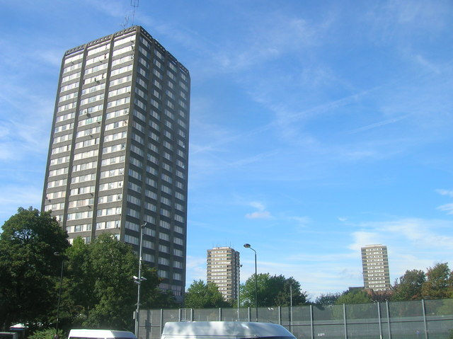 Tower blocks from Silchester Road W10. The building on the left is Grenfell Tower, before the fire disaster of 2017, also before new cladding was added. The buildings in the background may be on the Silchester Estate, possibly Frinstead House and Markland House. The other two similar blocks are Dixon House and Whitstable House. The sports pitch in the foreground no longer exists, replaced by a building which would obscure this view